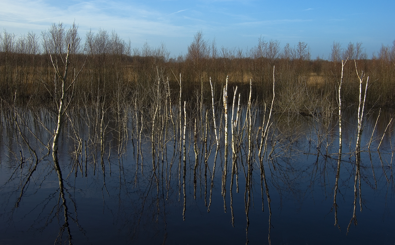 Bargerveen